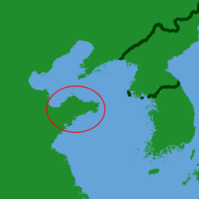 Location of Shandong Peninsula 산둥 반도의 위치